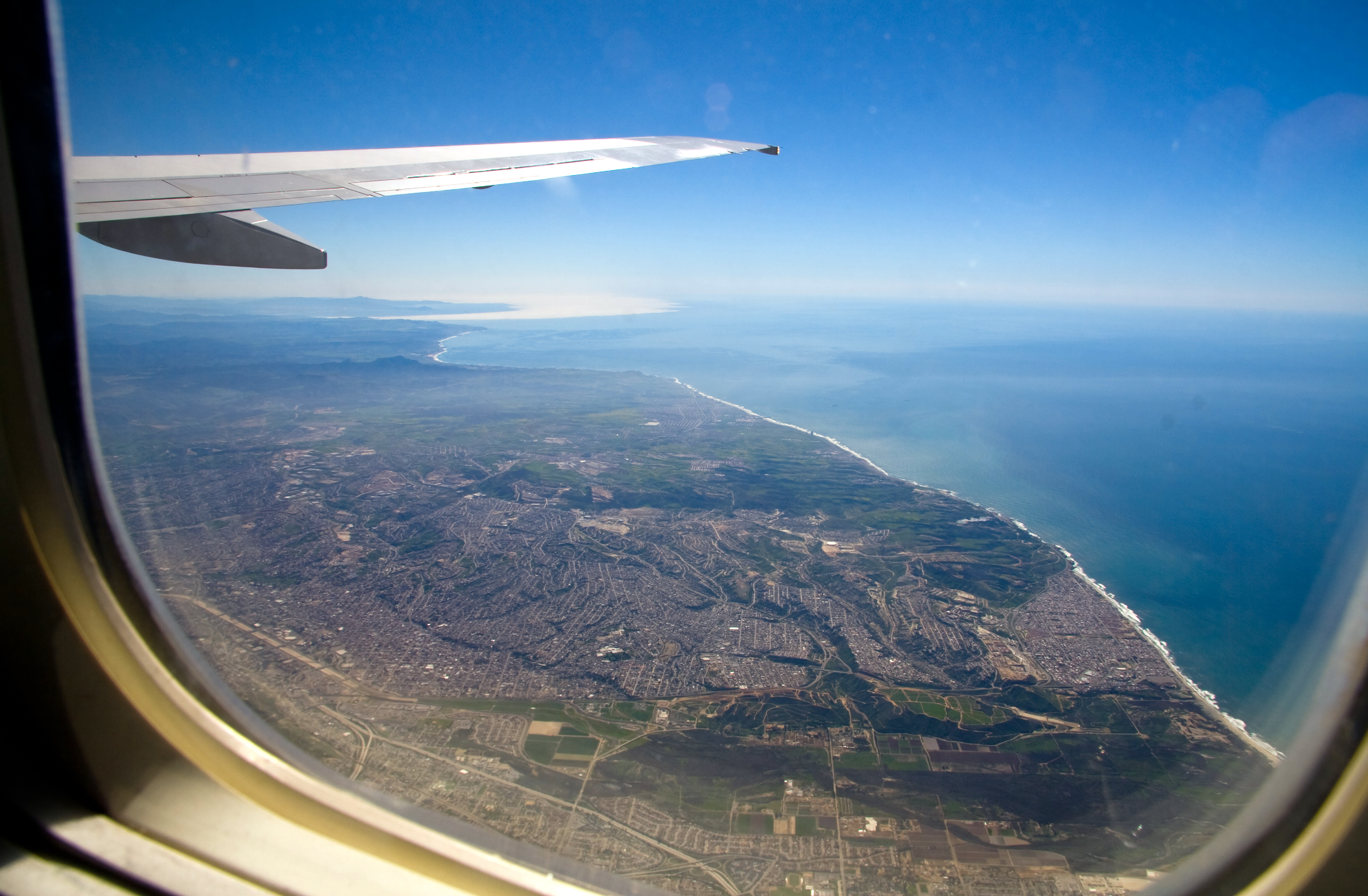 Aerial view of Tijuana and Rosarito Beach